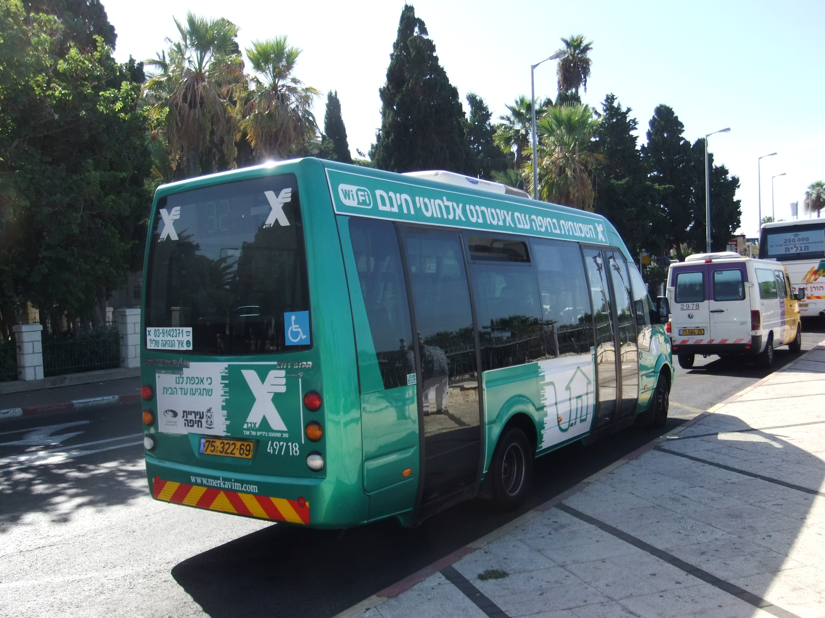 Egged Minibus featuring mobile WiFi in Stella Maris, Haifa